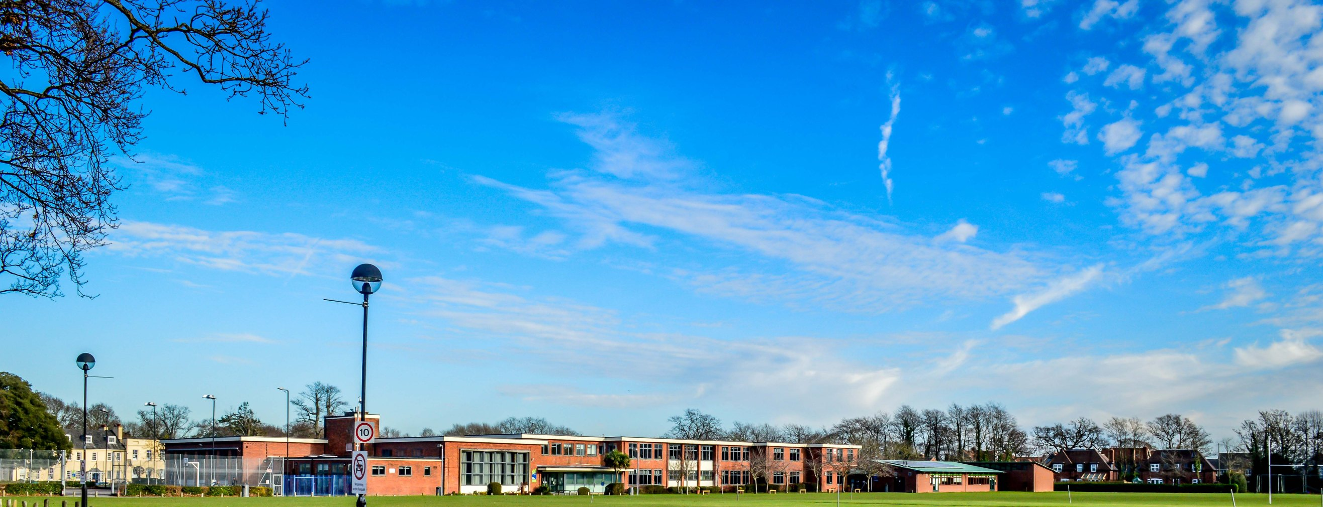 Secondary School, built on the land known as Priestlands, Pennington, Hampshire, UK